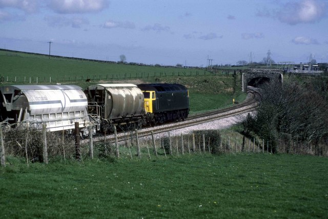 Clay from Cornwall to the North A freight service is seen heading east away from Menheniot out of the county with clay for the Potteries.